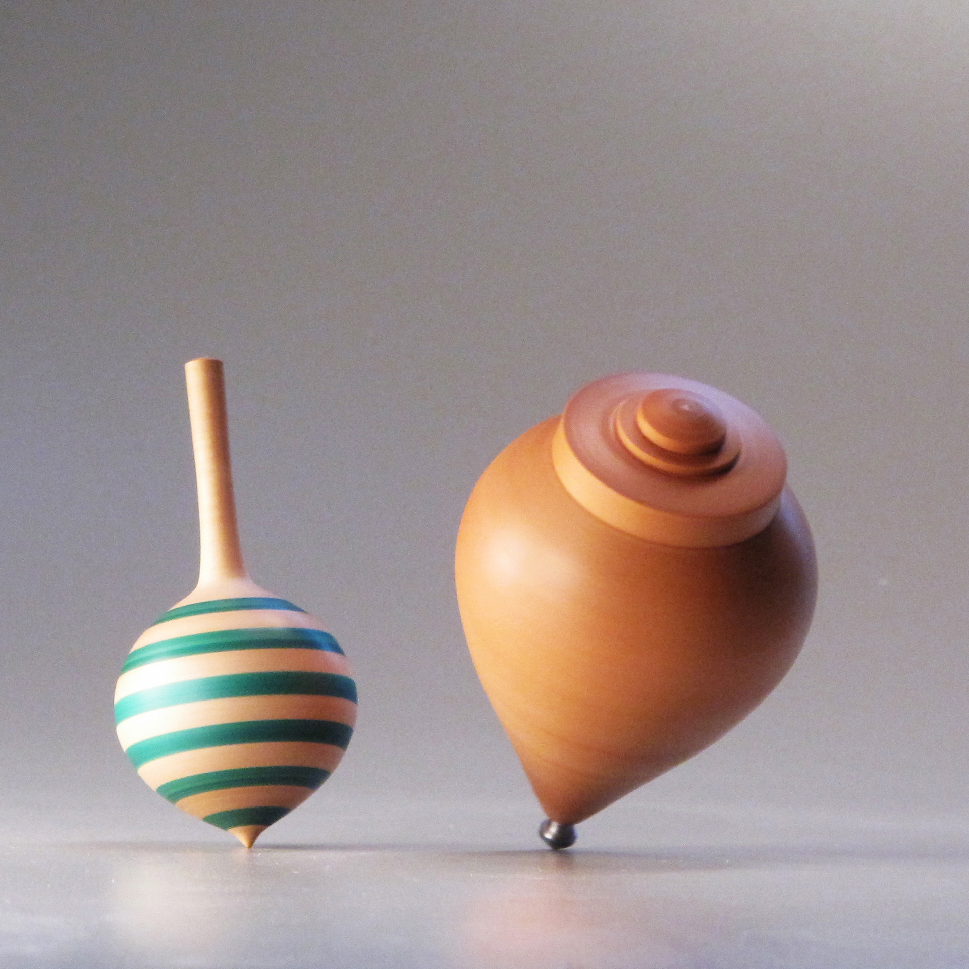 Spinning tops made by David Earle. The top on the left is spun between the fingers - the larger (Trompo) is launched by winding with a string and throwing to the ground.